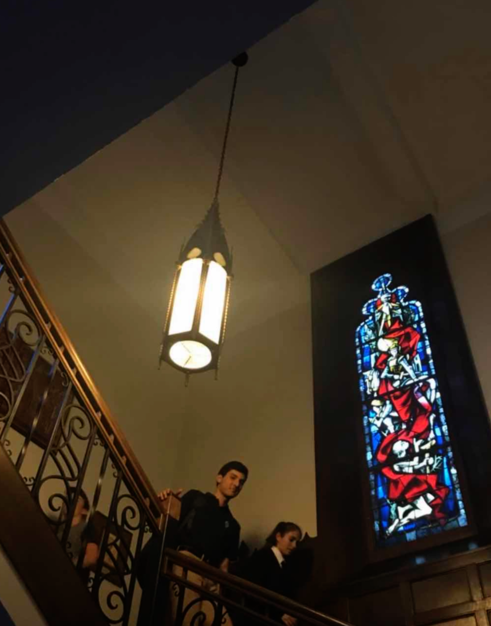 BCS Stained Glass (One of Three)